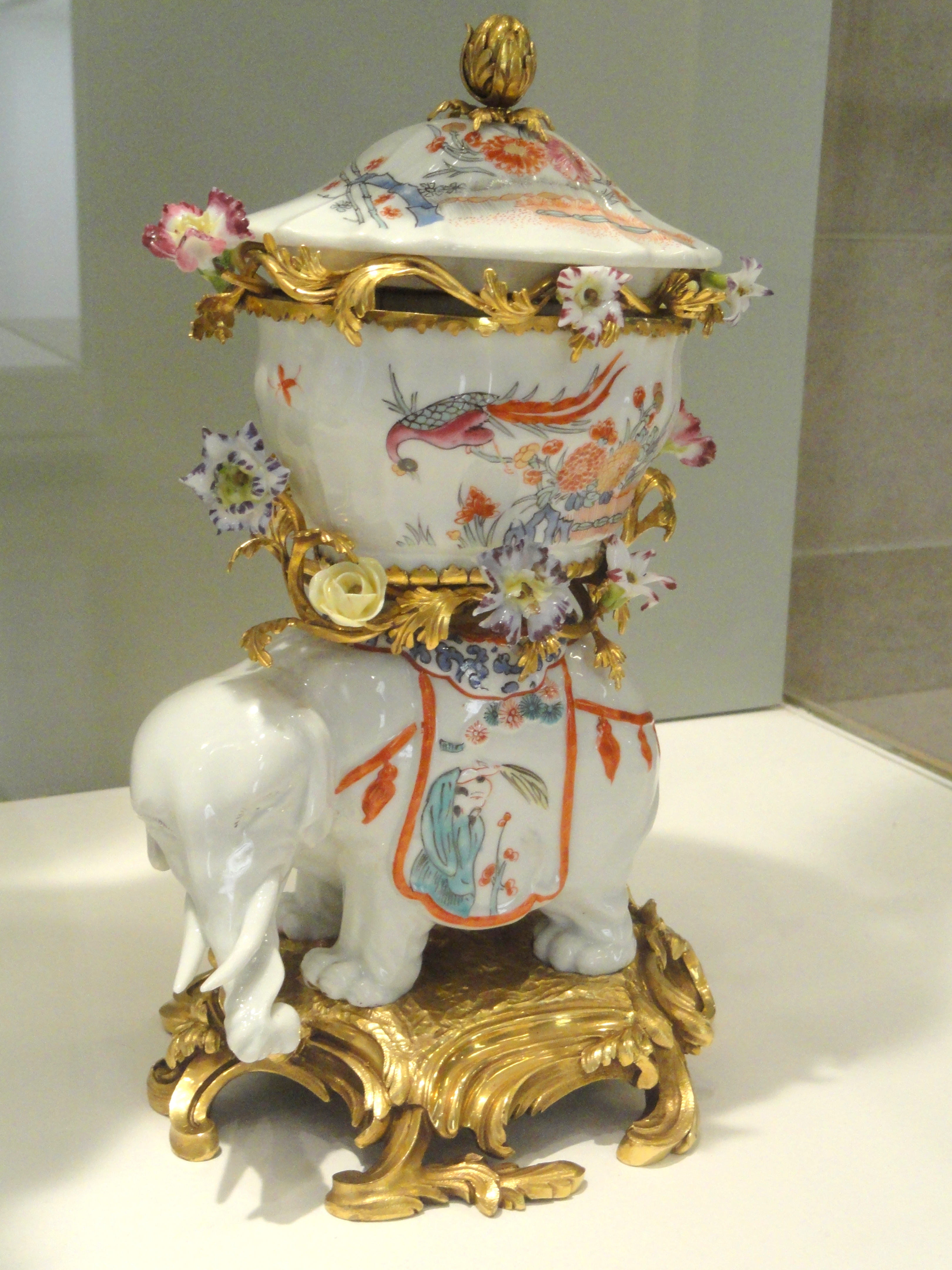 Exhibit in the Gardiner Museum, Toronto, Ontario, Canada. This artwork is in the public domain because the artist died more than 70 years ago.